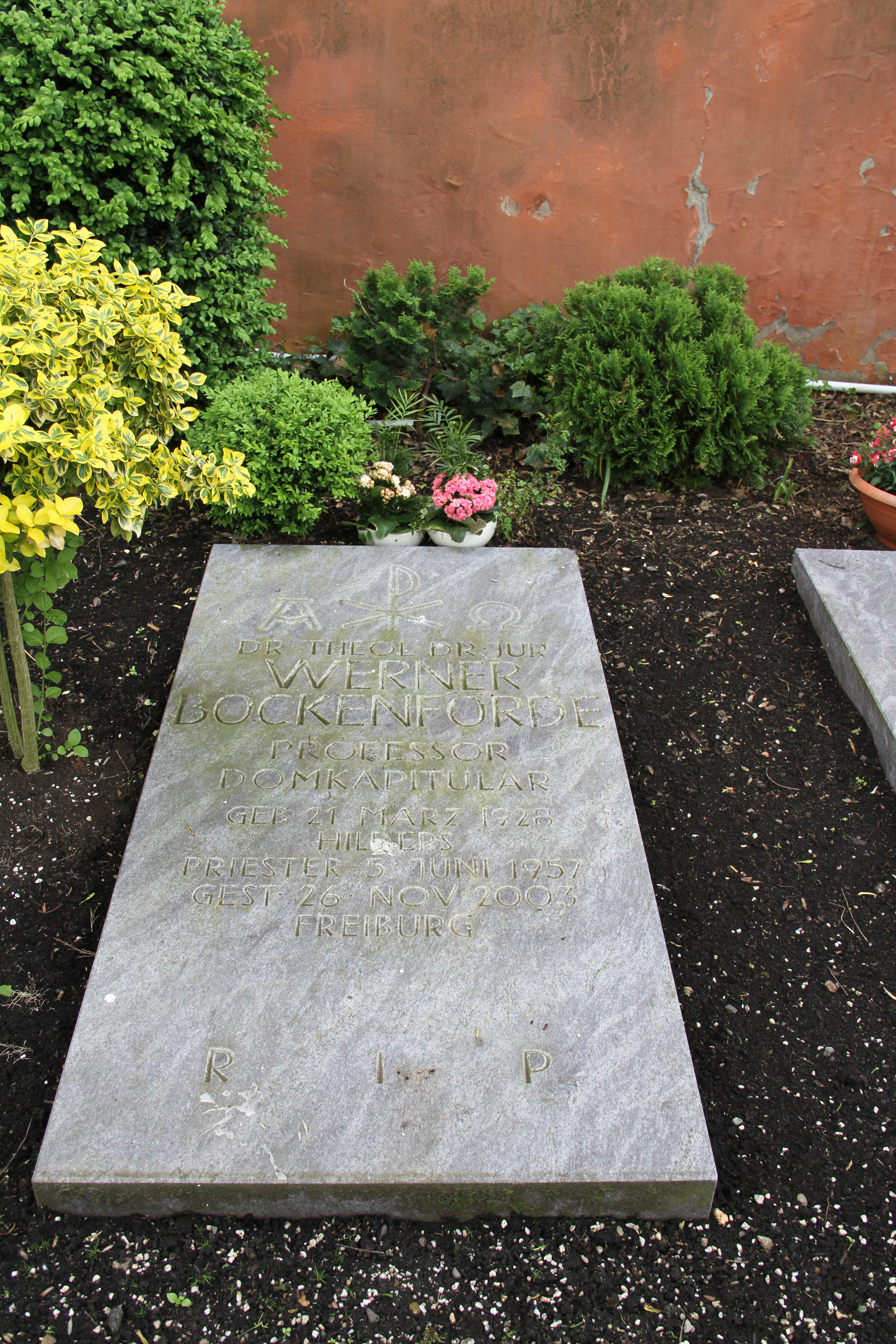 Grablege der Domherren on the former cemetary next to the Limburg Cathedral